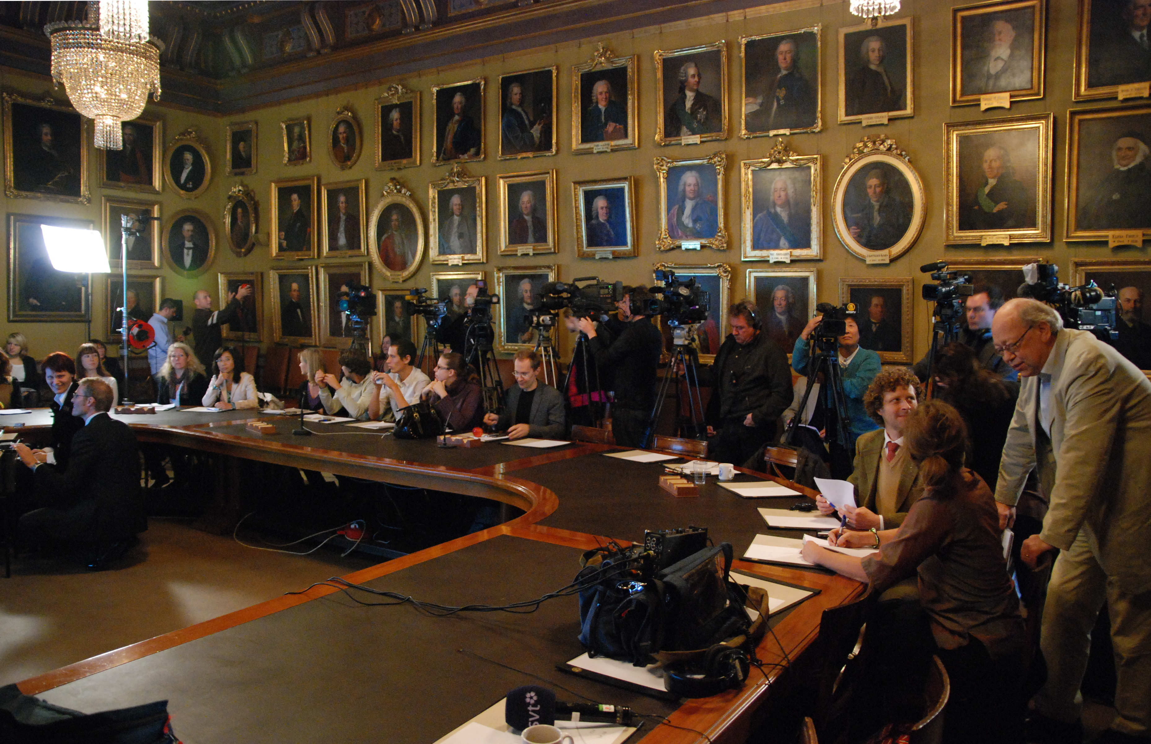 News Conference: Announcement of the Laureates of the Nobel Prize in Chemistry 2008 at the Session Hall of the Swedish Academy of Sciences